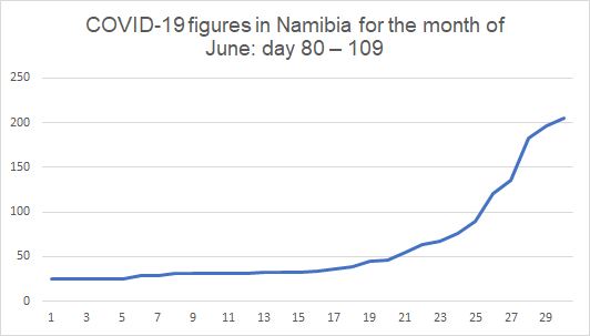 A graph showing the number of COVID-19 cases in Namibia for the month of June 2020. Day 80 represents the 1st of June; 80 days after the initial infection.